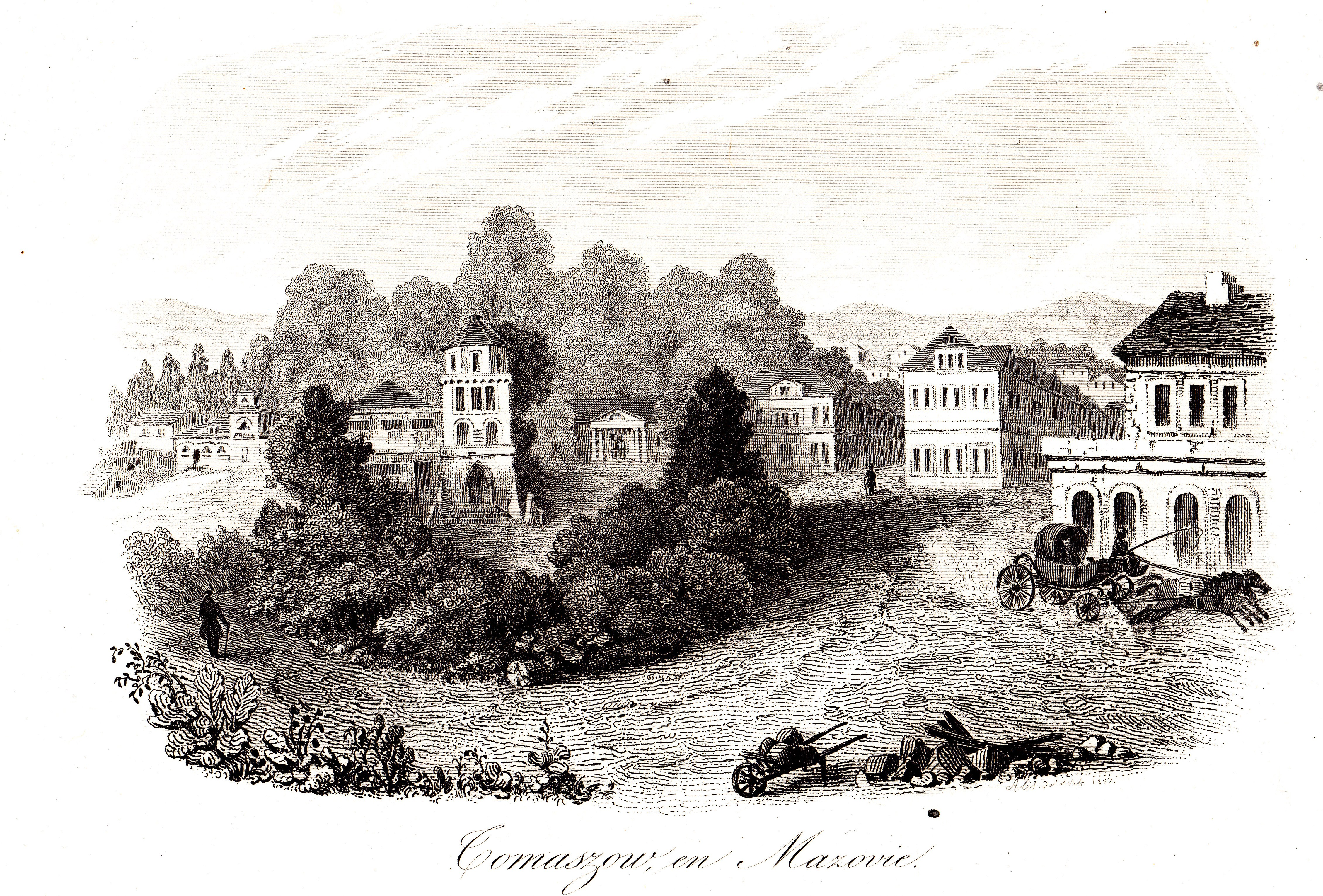 Tomaszów Mazowiecki before 1837 (by Leonard Chodźko)